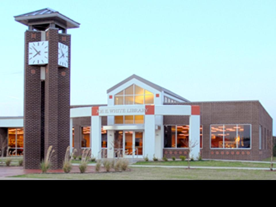 Photo of the Joe E. White Library